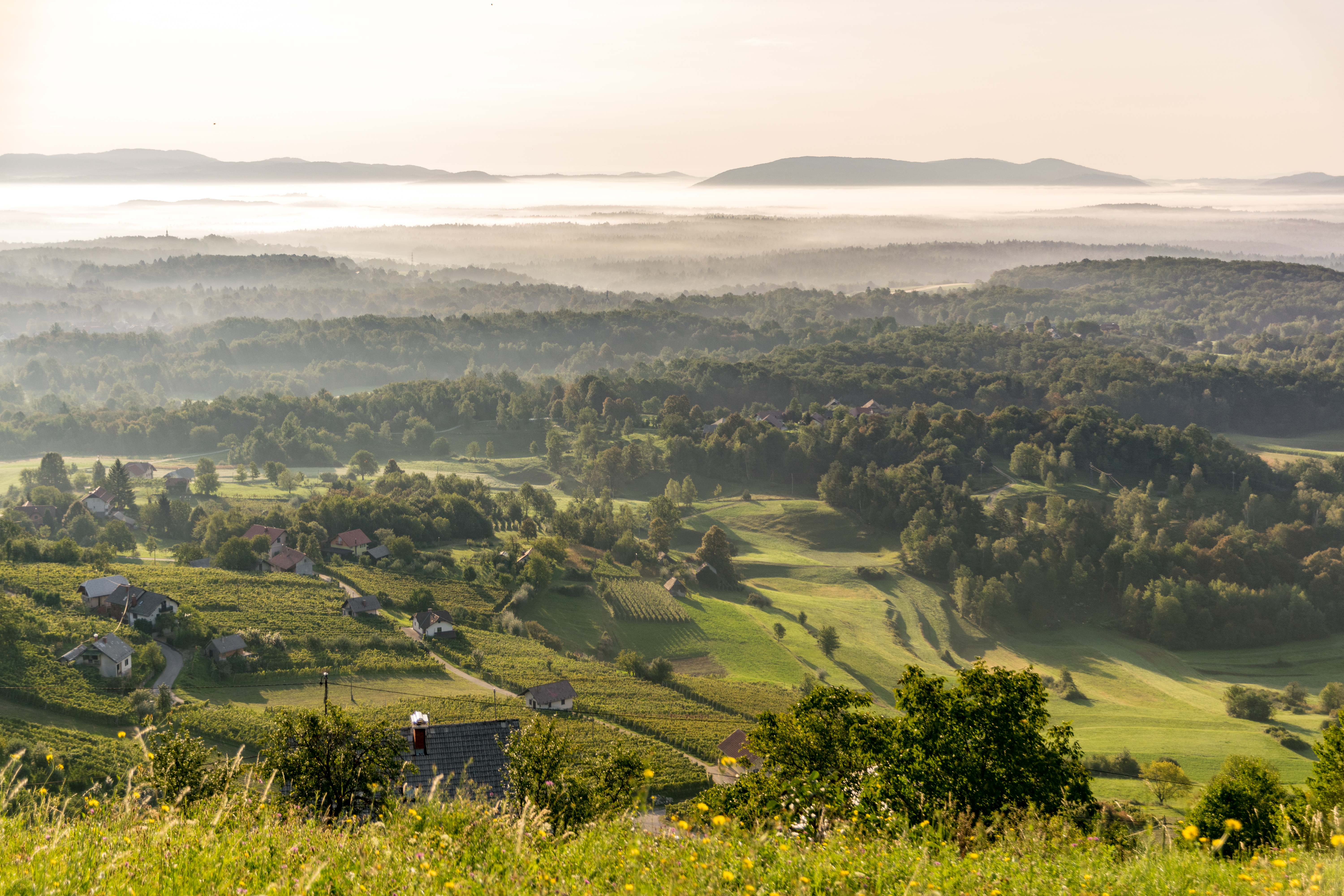 Photograph taken from Gaber hamlet in the municipality of Semič in Bela krajina.